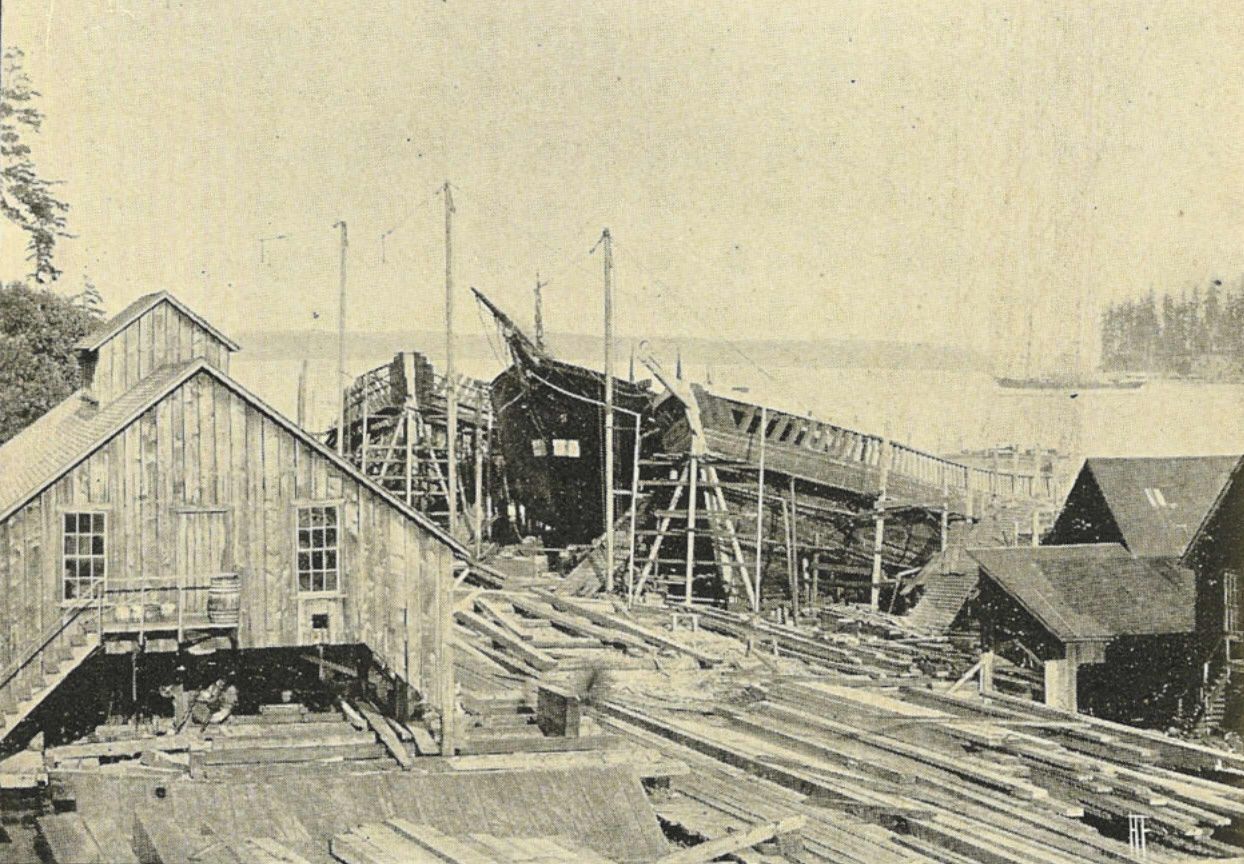 "Hall Brothers' Shipyard, Port Blakeley" from brochure Seattle and the Orient (1900). "Port Blakeley" on Bainbridge Island, Washington is now spelled as "Port Blakely".